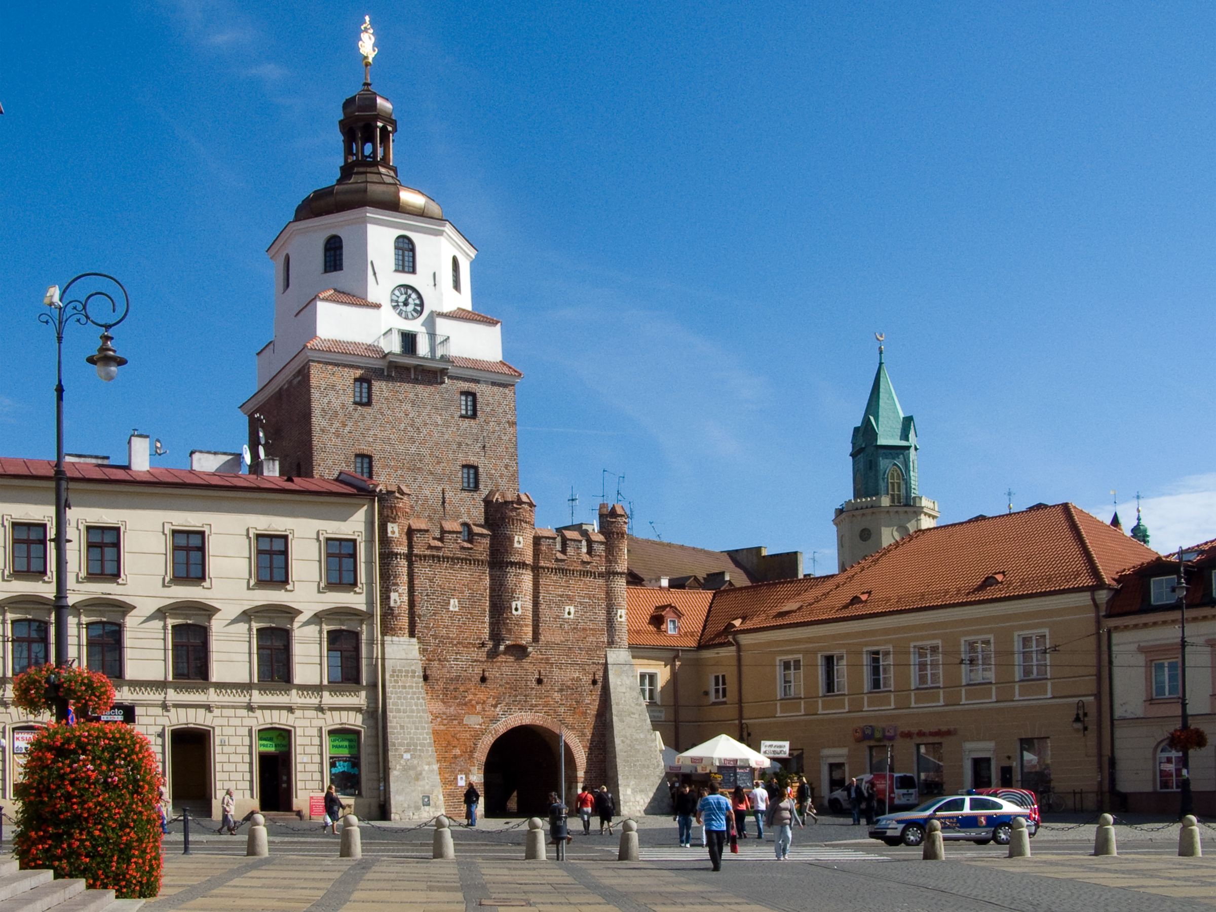 Cracow Gate of the city walls in the team. Monument A/146 of 01/14/1967.